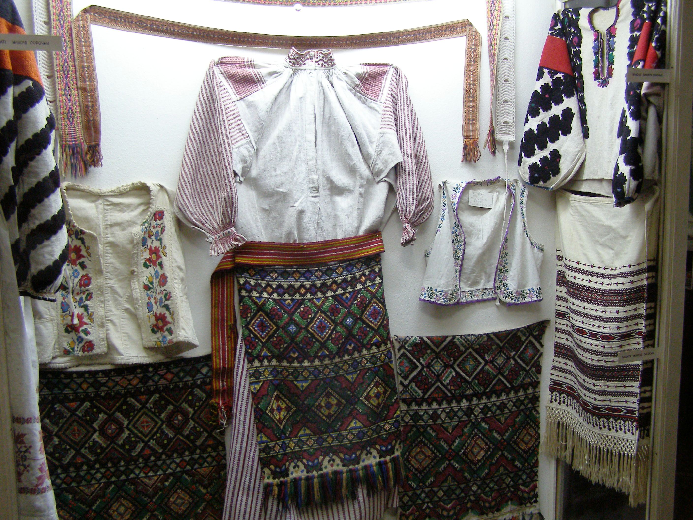 Local folk costumes at Berezhany museum, Ternopil province, west Ukraine